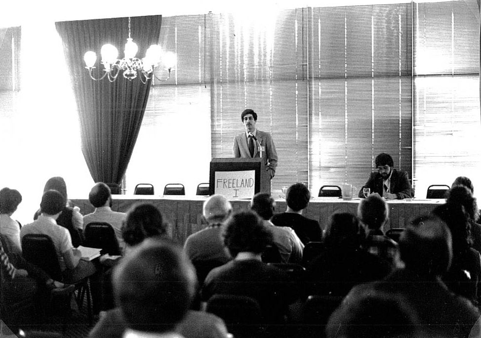 Gary Hudson photo by Lawrence Samuels